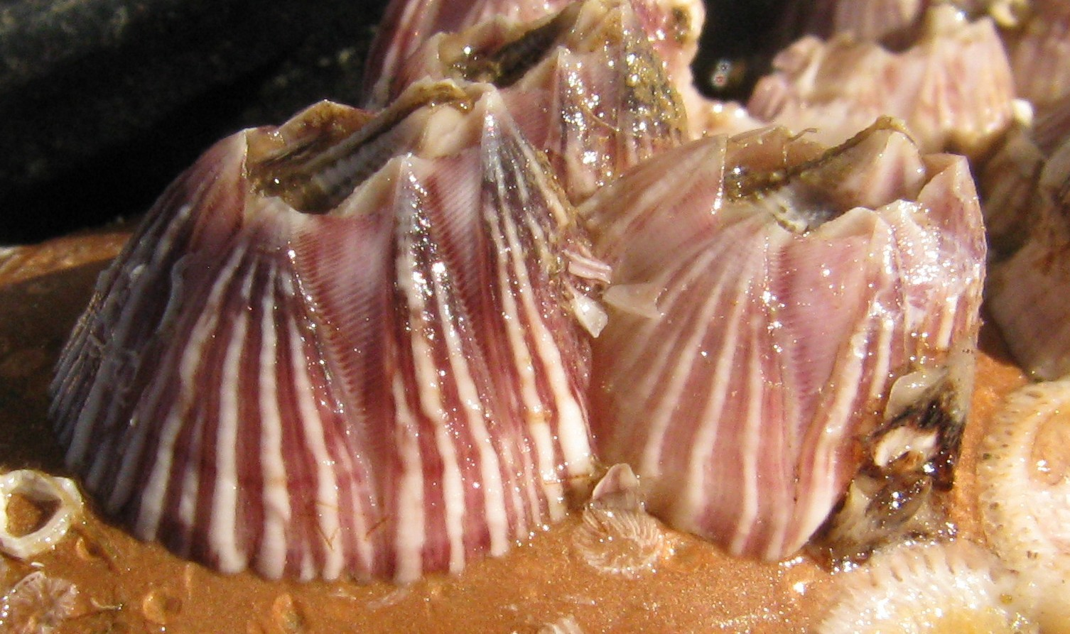 Lateral view.Port de Rose, Cataluna, Spain.